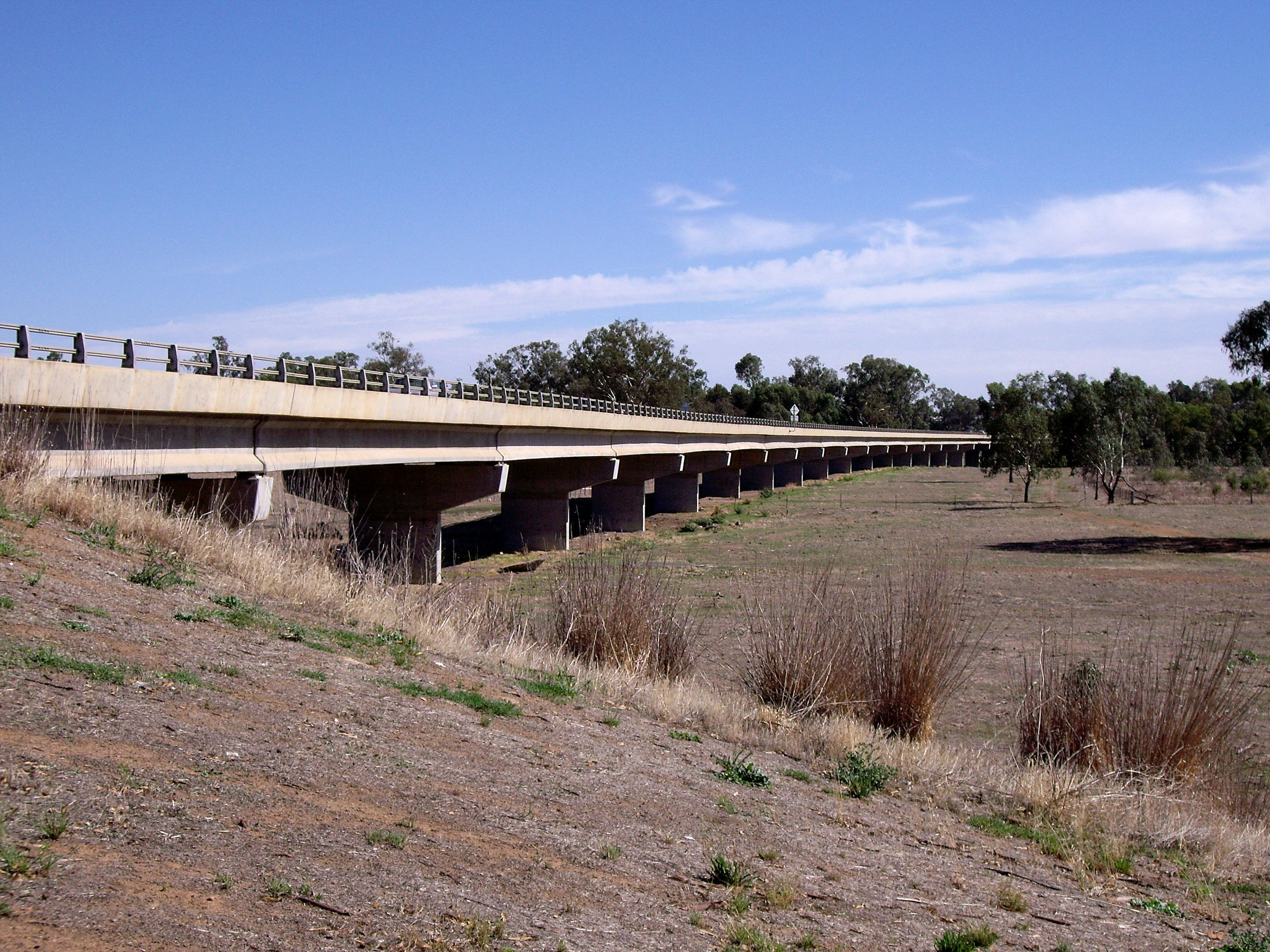 Wagga Wagga Gobba Bridge - Over the Murrumbidgee River